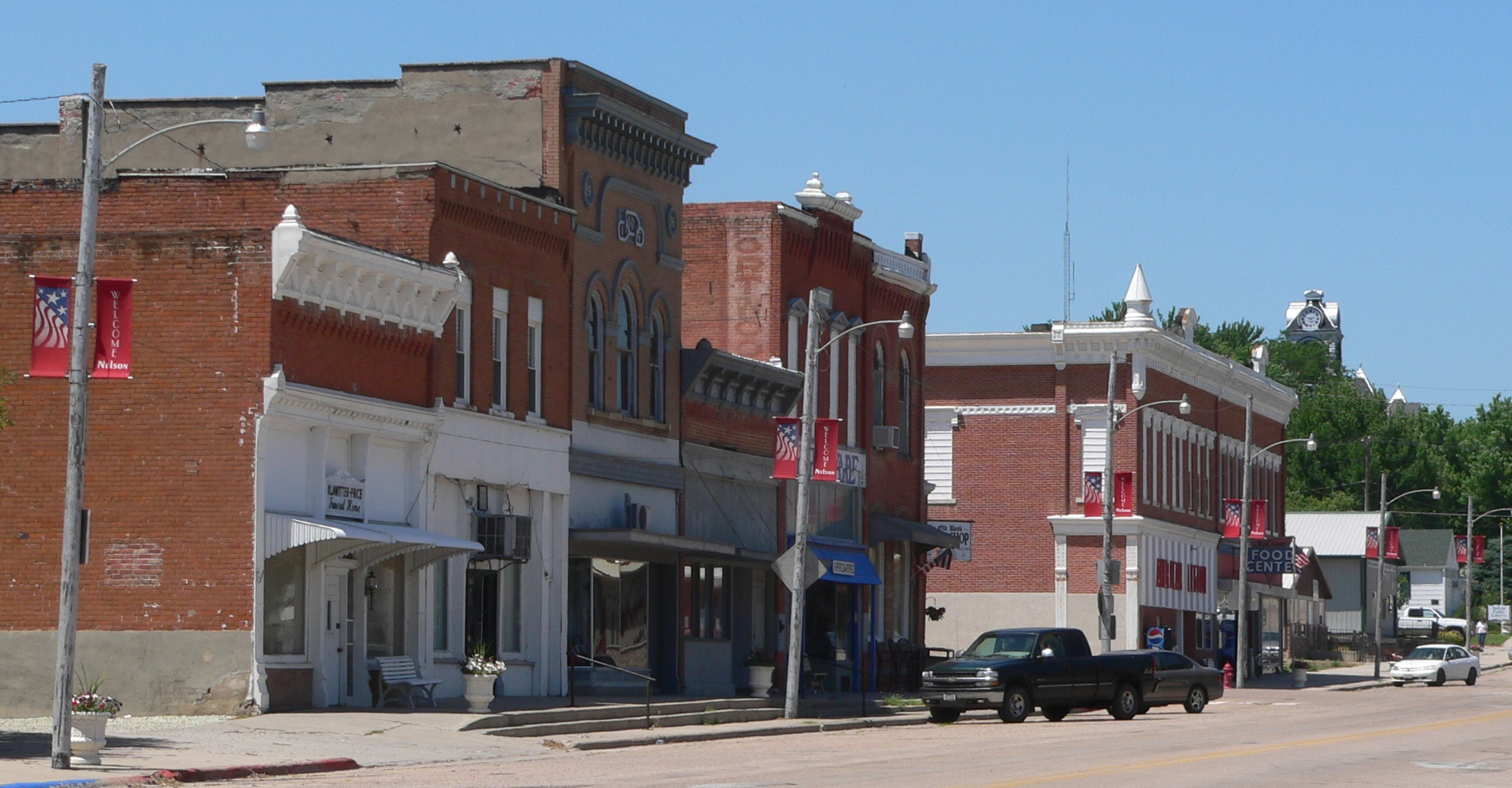 Downtown Nelson, Nebraska: west side of Main Street, seen looking northwest.